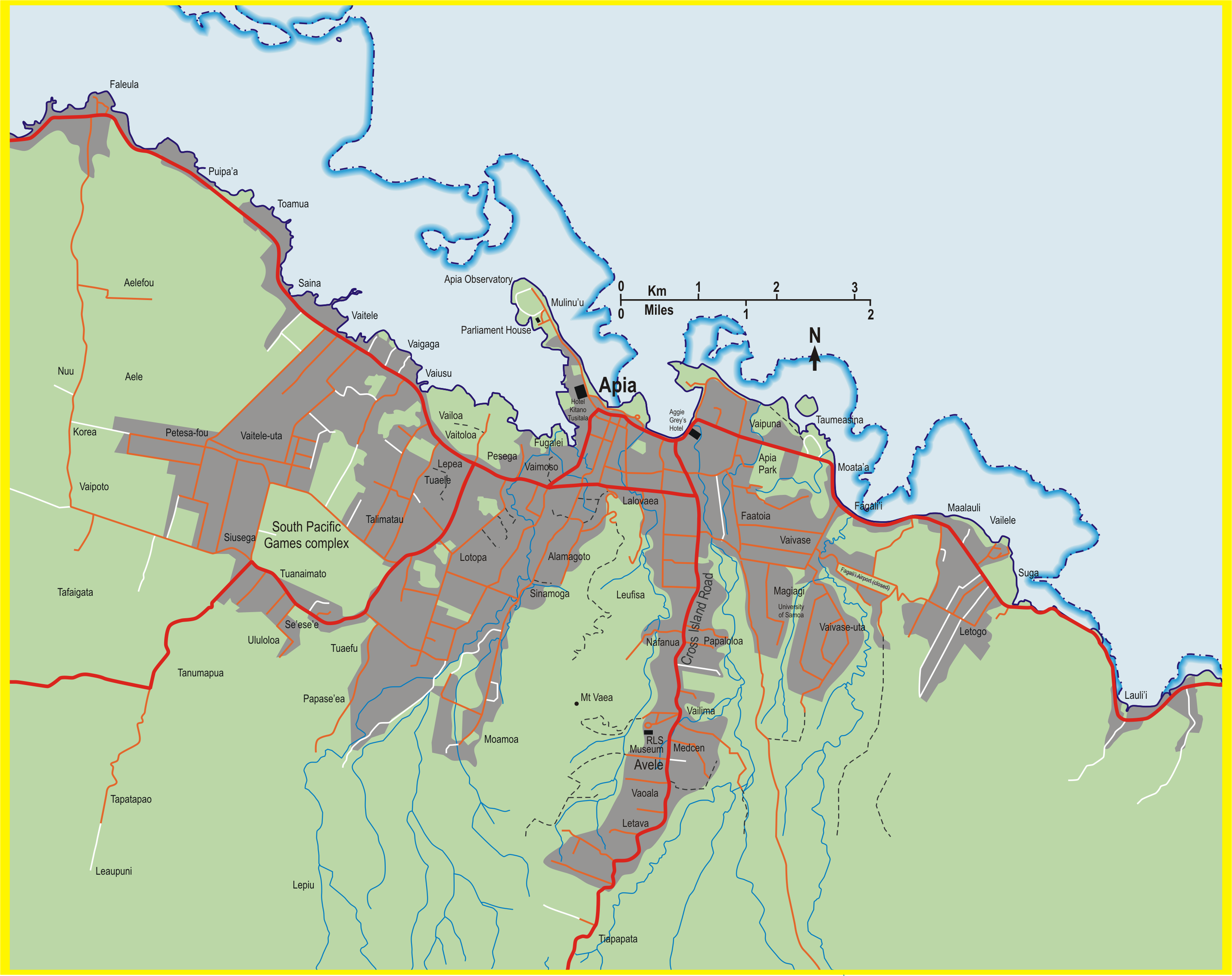 This is a later version of the file Samoa_Apia_Map.png which extends further and includes the site of the South Pacific Games. I have been forced to upload it with a new filename